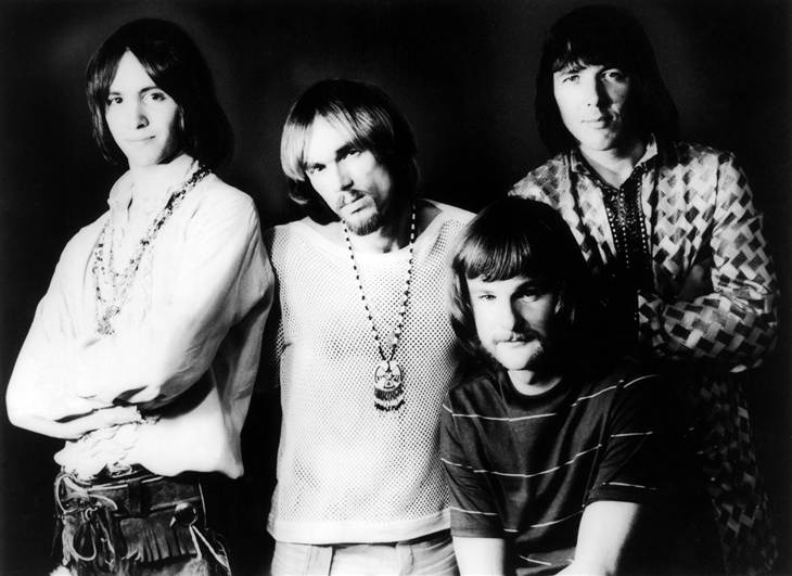 Photo of the music group Iron Butterfly.